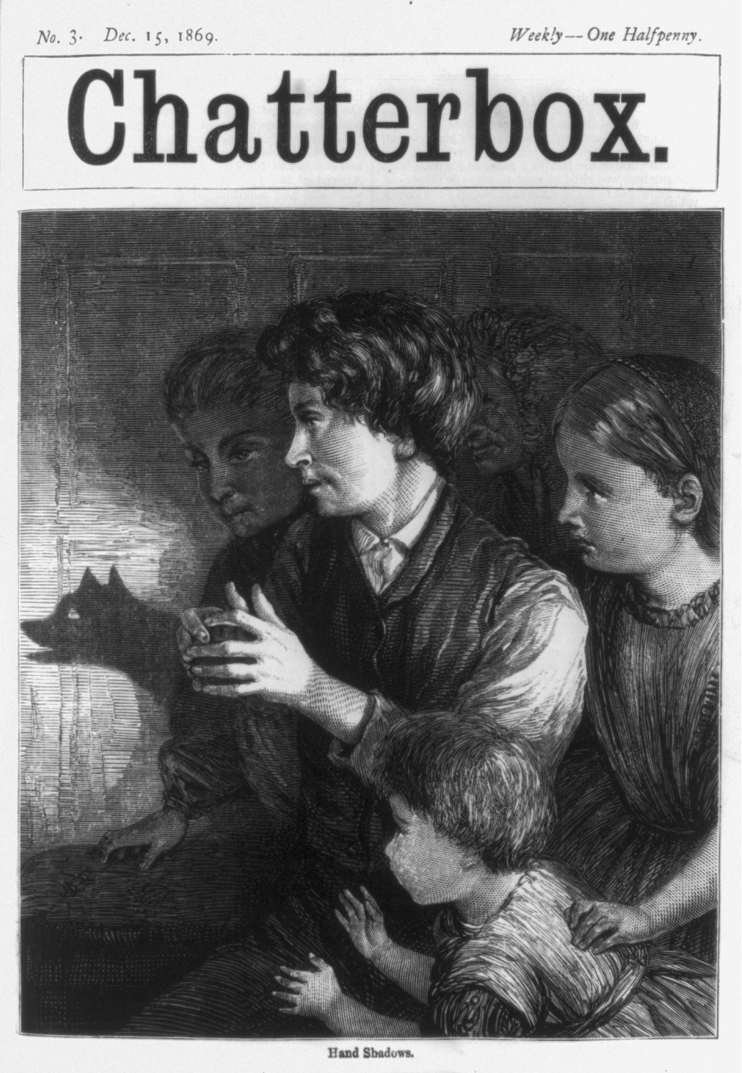 Title: Hand shadows Abstract/medium: 1 print : wood engraving.